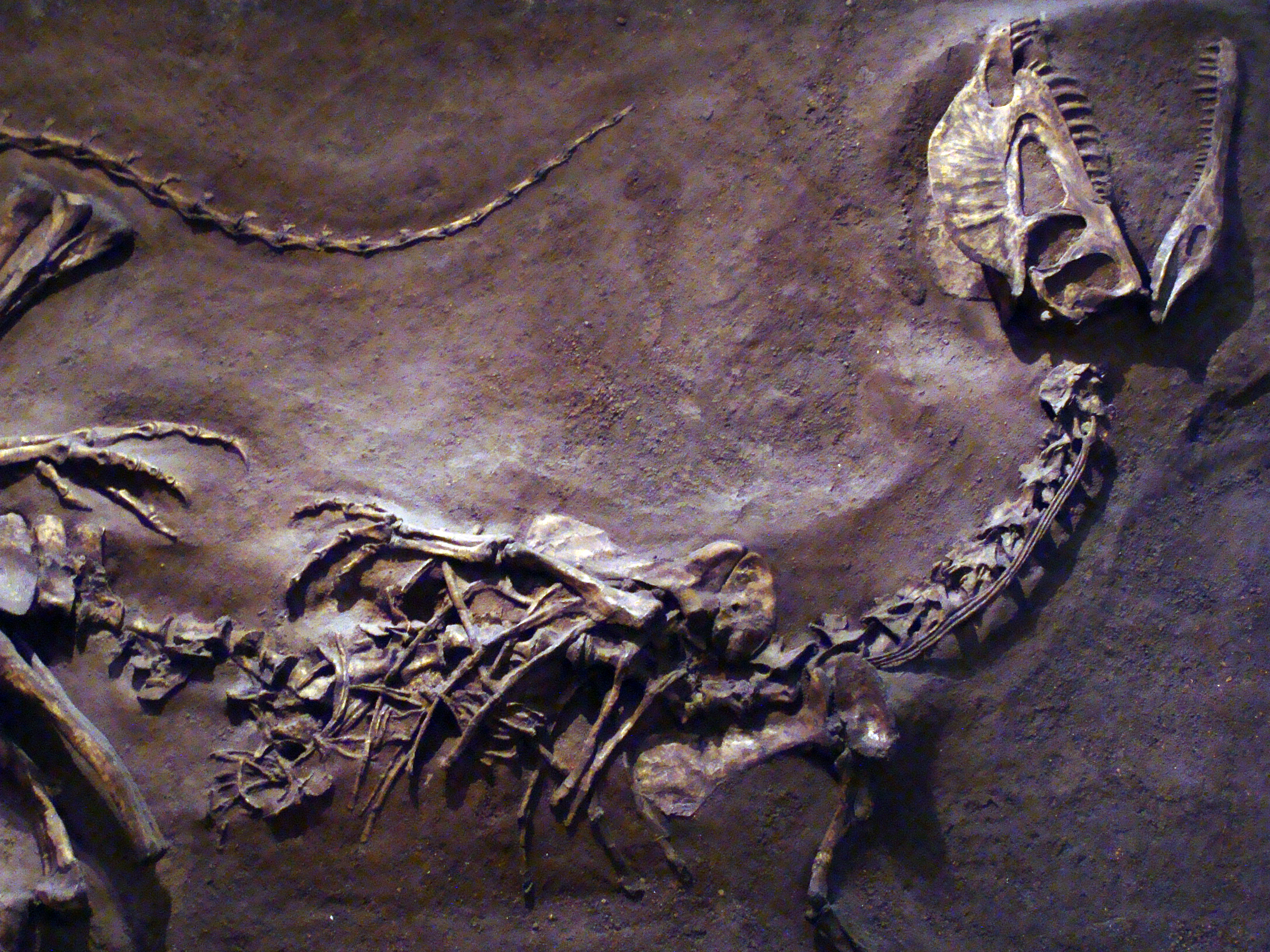 Dilophosaurus on display at the Royal Ontario Museum.